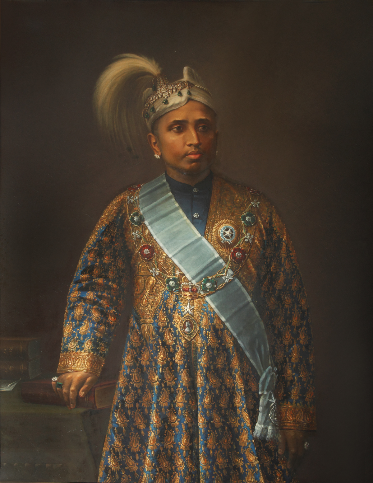 Sir Bala Rama Varma (1857-1924), Maharaja of Travancore